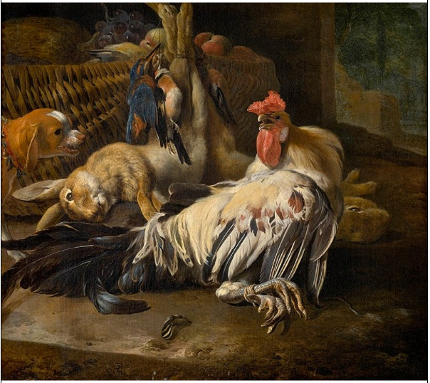 Melchior d'Hondecoeter, Still Life with Cock, oil on canvas, 59 x 66 cm, Museum of Fine Arts, Antwerp